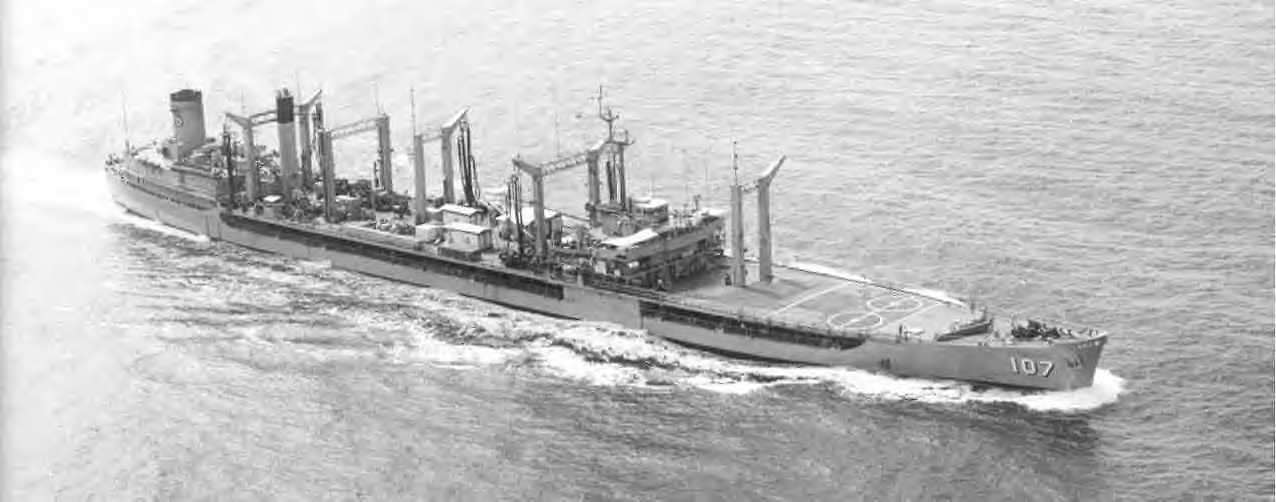 Fleet replenishment oiler USS Passumpsic (AO-107) after 1965 "jumboization".